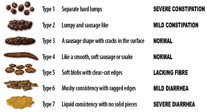 Bristol stool chart.